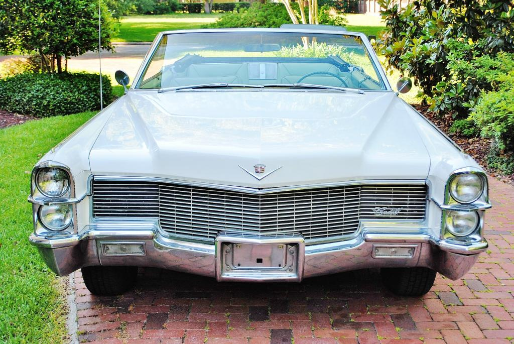 This is a picture of a vehicle (name of it is on the file name).